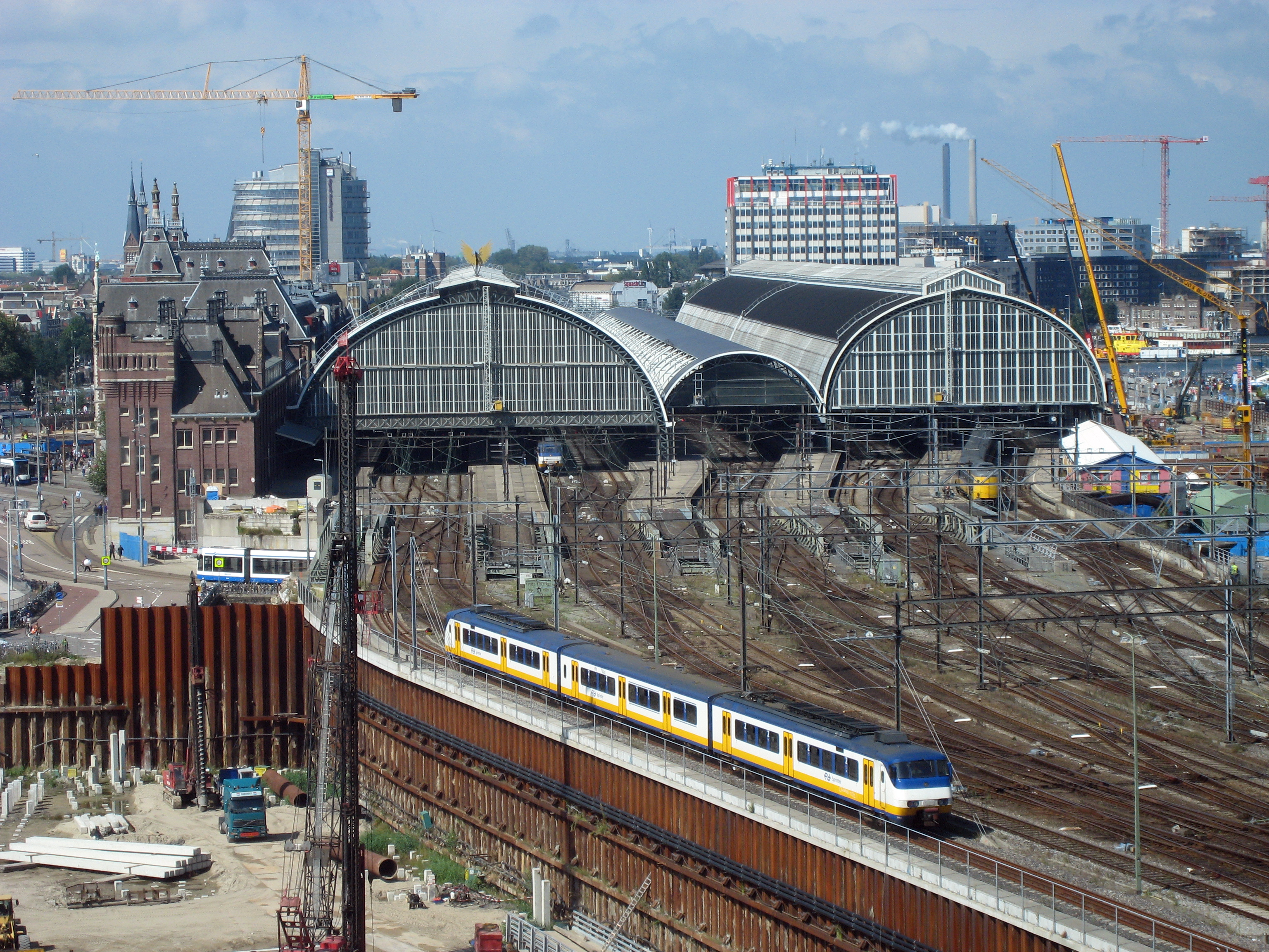 Amsterdam centraal station. A 'sprinter' type train of the Nederlandse spoorwegen is visible on the foreground. Picture taken from central library at Oosterdokseiland.